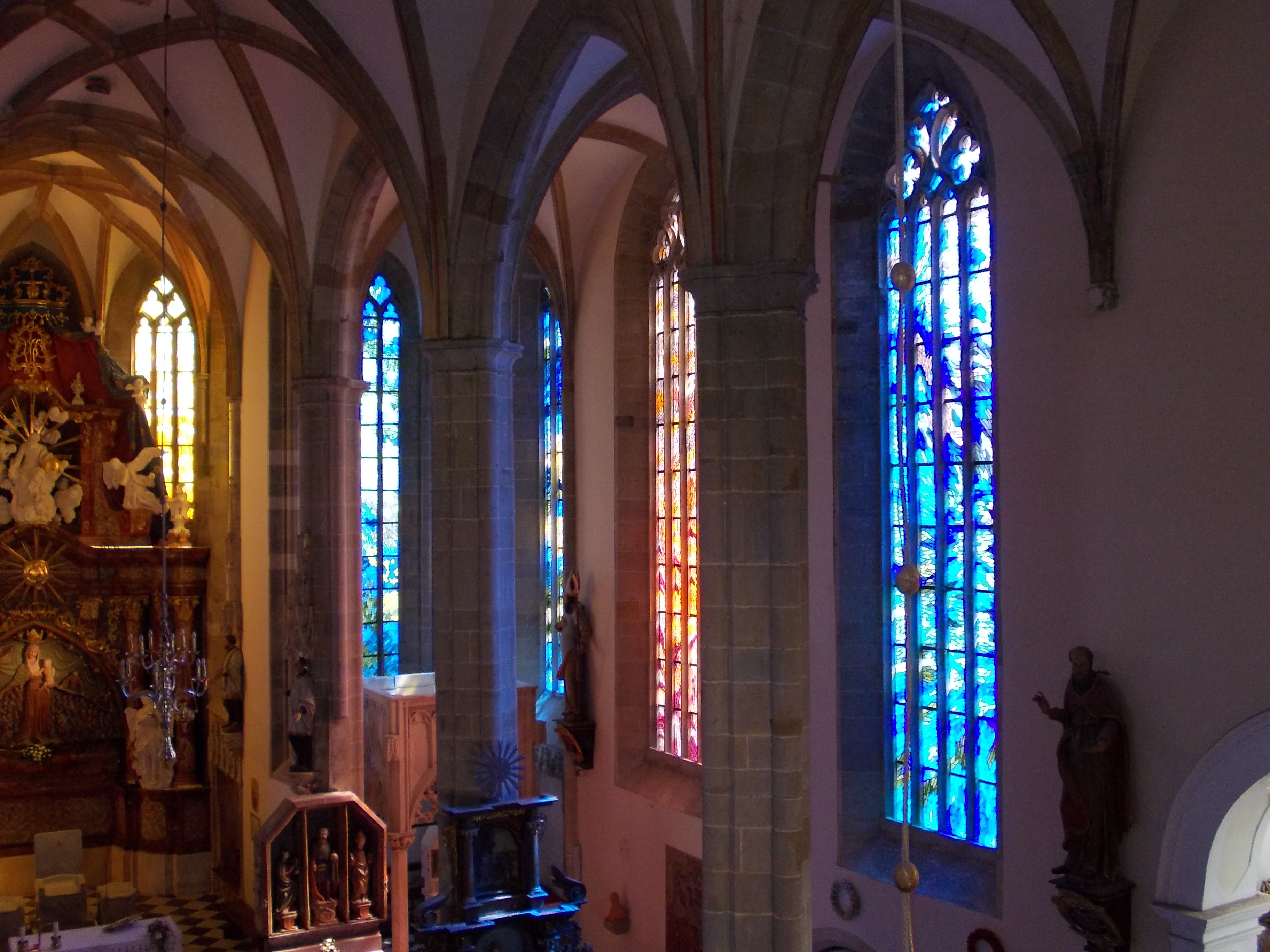 Basilica of the Virgin Mary Protectress jacketed, Ptujska Gora